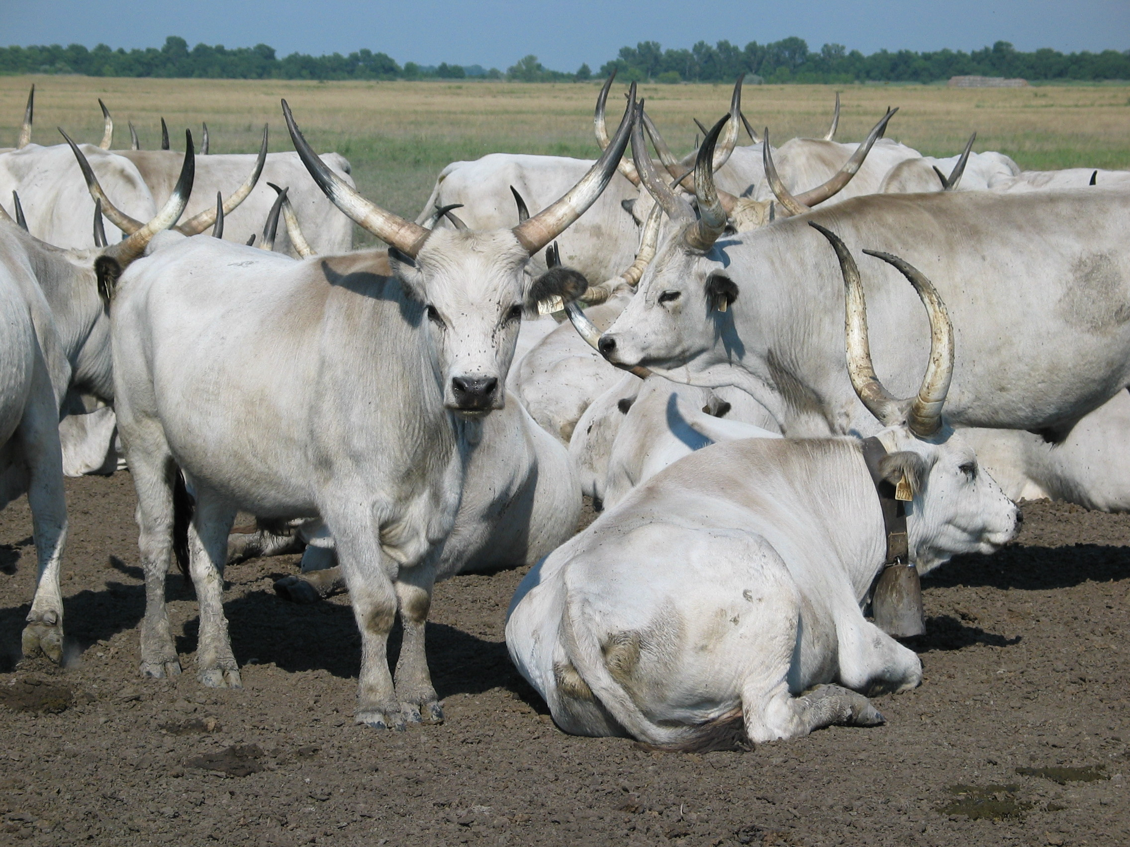 Hungarian Grey cows in Hortobágy National Park, Hungary. The cow on the right side is chewing her cud. Photo: László Németh.